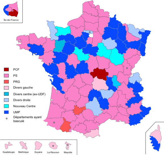 Distribution of presidents of local general councils by party after the 2011 canton elections. Parties, from top to bottom in legend, are: Communist Party, Socialist Party, Radical Left Party, miscellaneous left-wing, miscellaneous center (ex-UDF), miscellaneous right-wing, New Center, UMP (center-right), MPF (Euroskeptic).